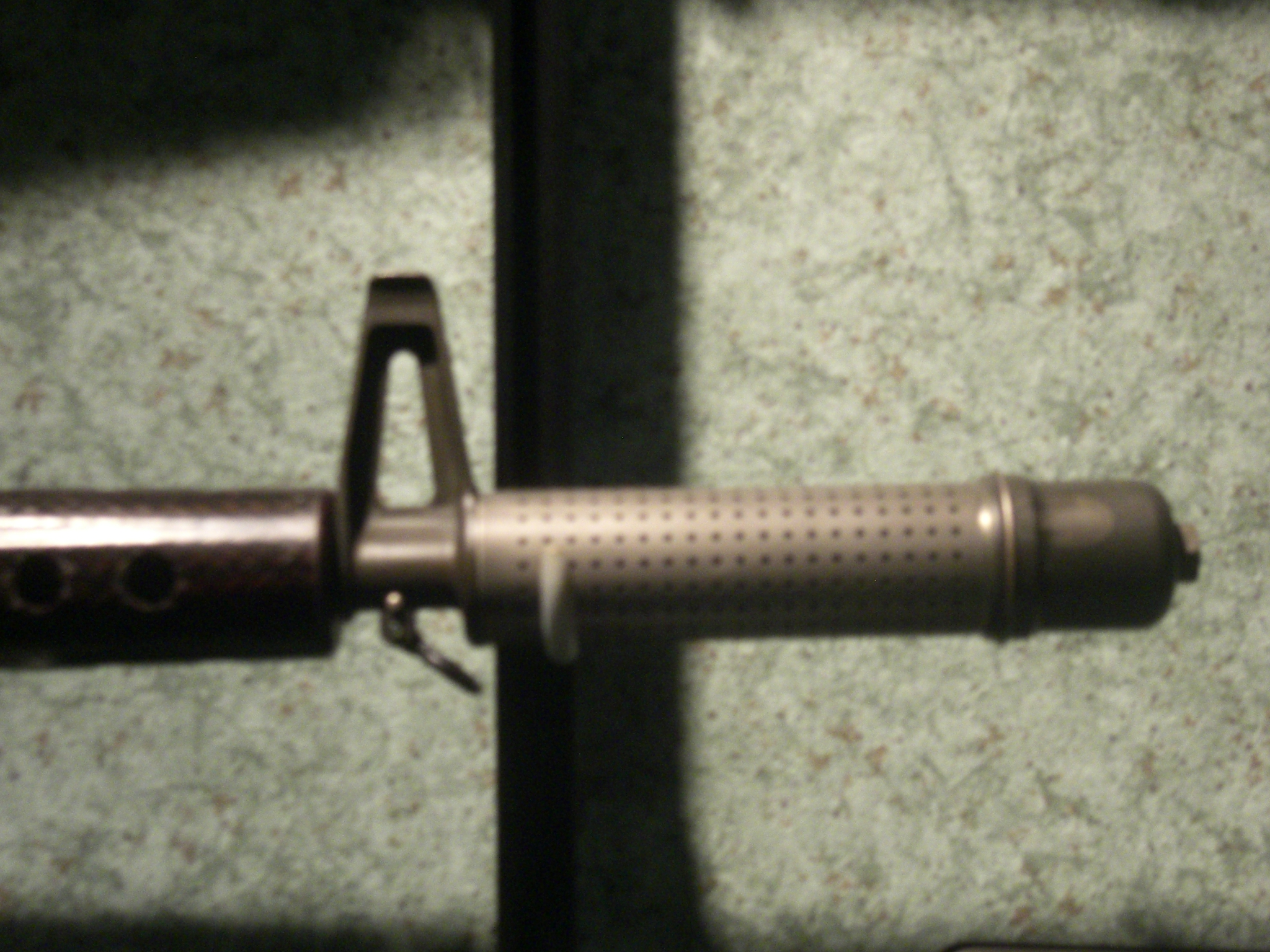 Foto of the compensator on an AR-10 rifle